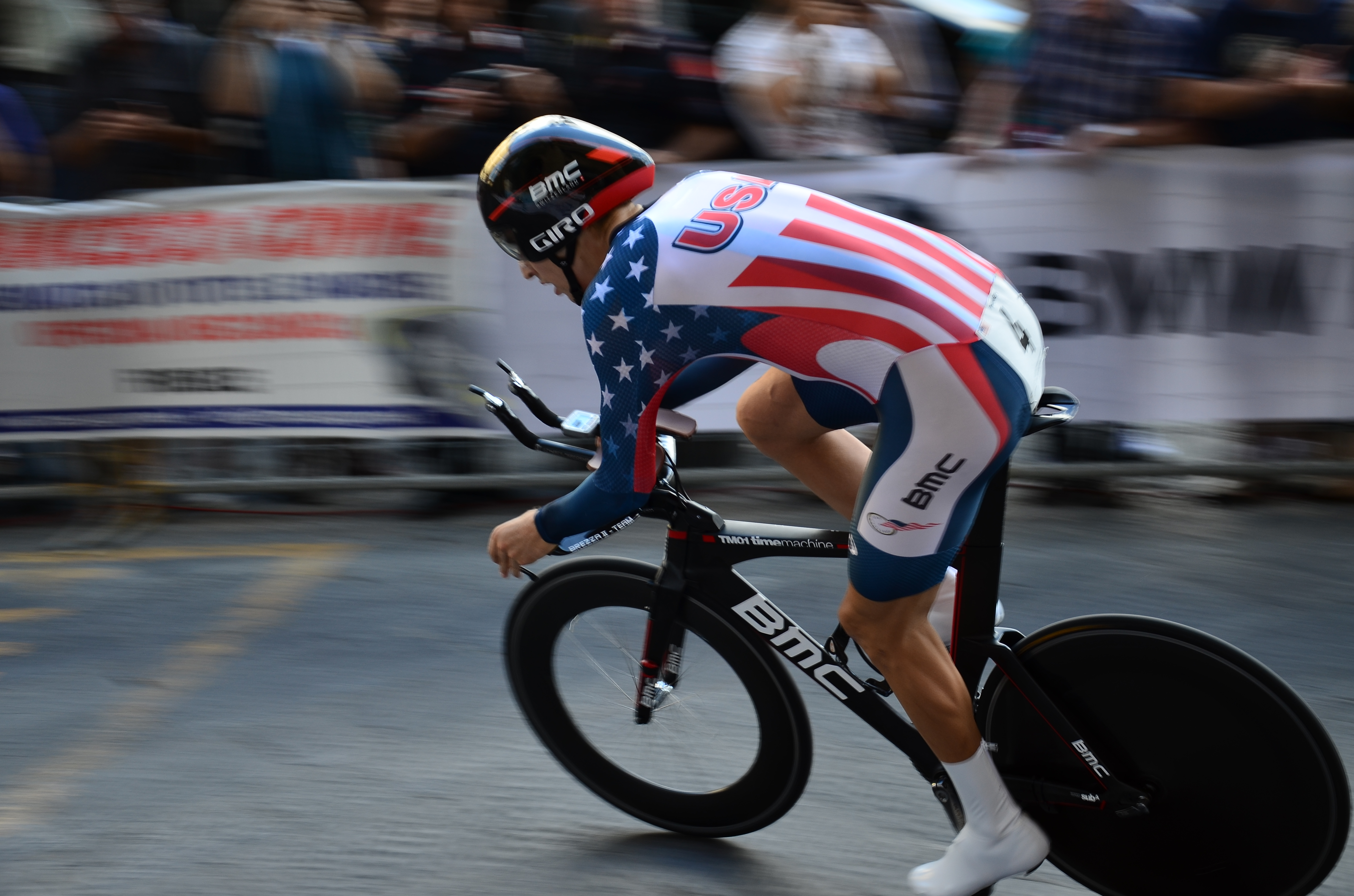 Phinney Taylor Uci Road World Championships Toscana Italy 2013 Florence